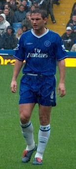 Frank Lampard in the rain He looks a bit wet but I don't suppose it bothers him.